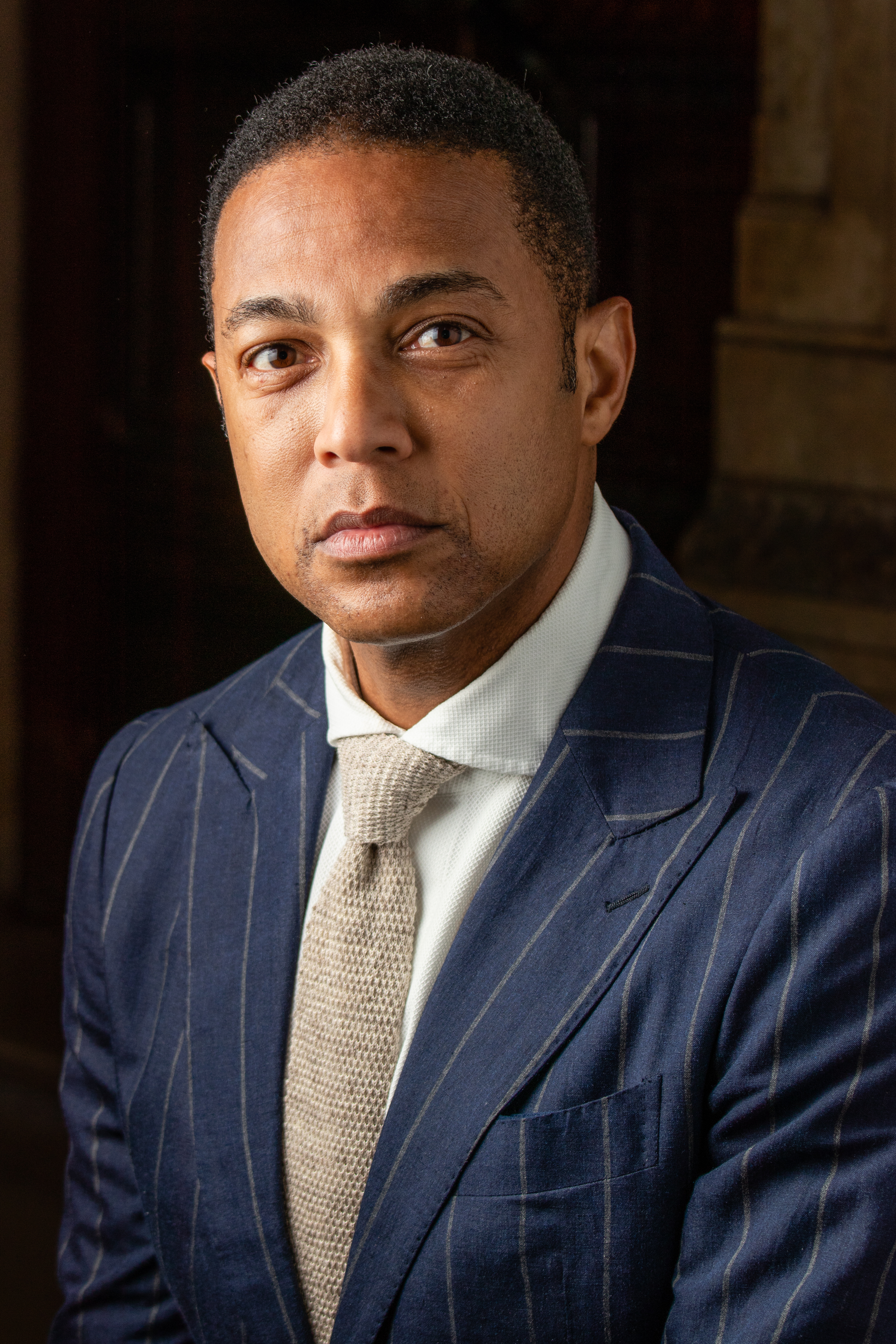 Don Lemon at the 2018 Pulitzer Prizes